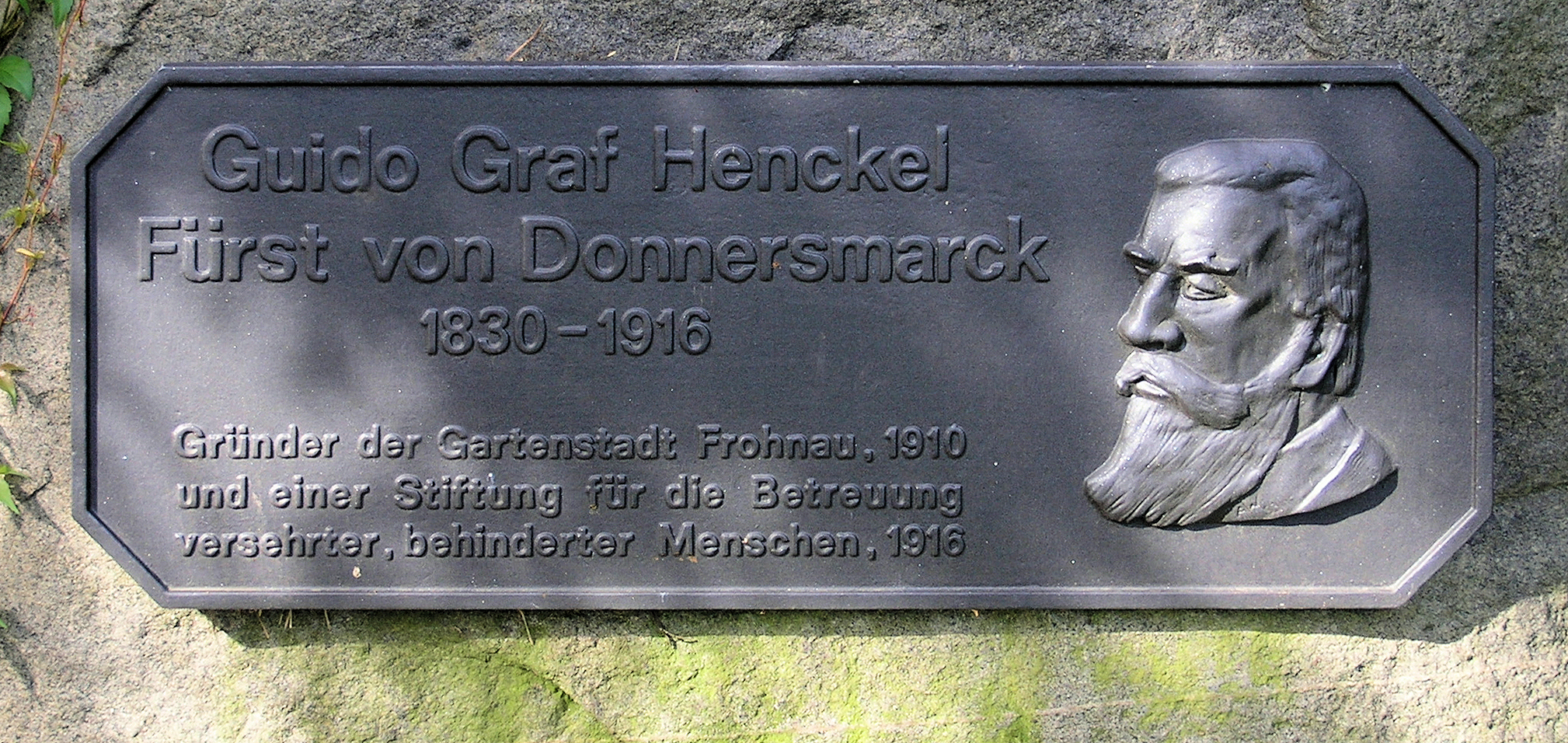 Memorial plaque, Guido Henckel von Donnersmarck, Donnersmarckplatz , Berlin-Frohnau, Germany Koordinate:52°37′47″N 13°16′44″E / 52.62972°N 13.27889°E